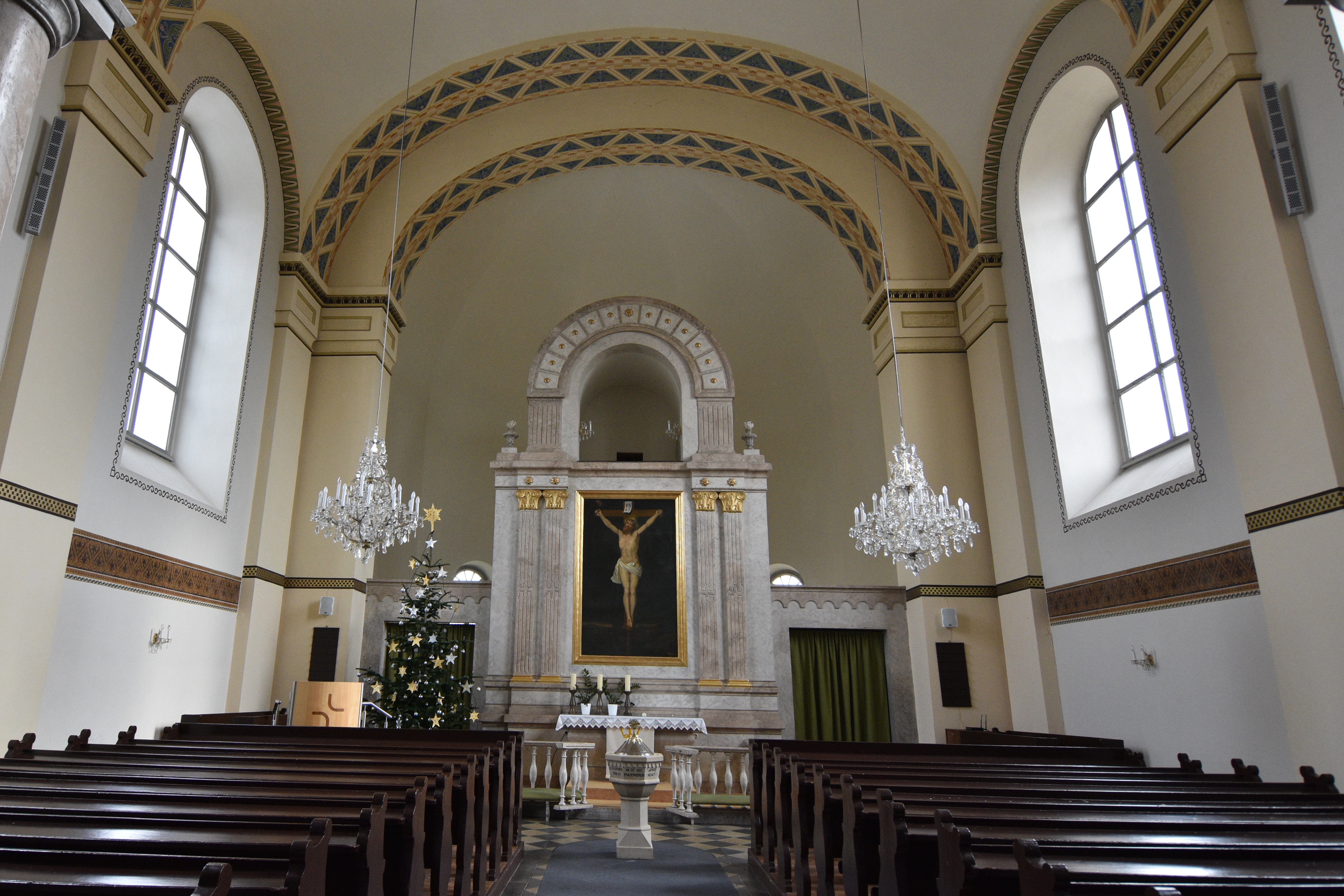 Deutsch Kaltenbrunn